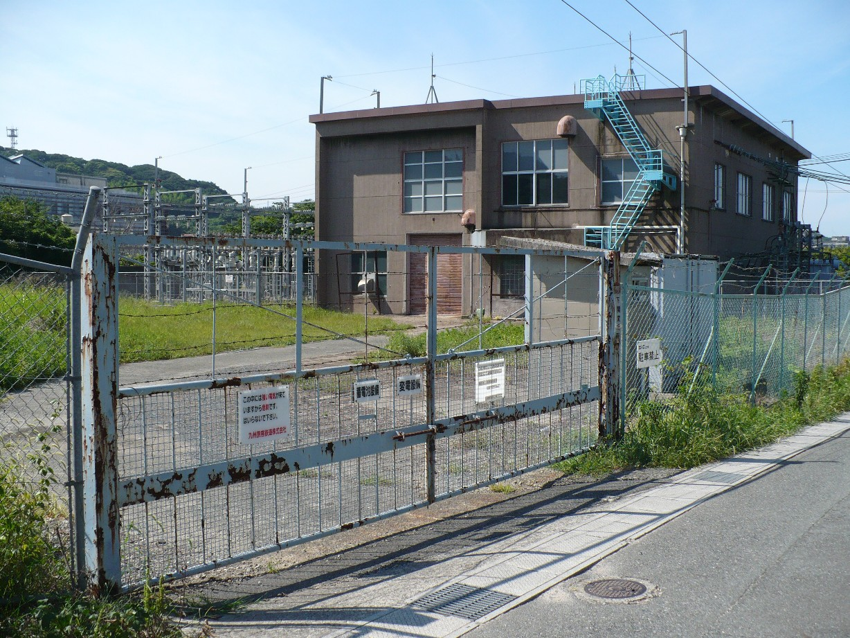 Shimonoseki electrical substation, JR Kyushu. The station feed traction current in Kammon railway tunnel in DC.